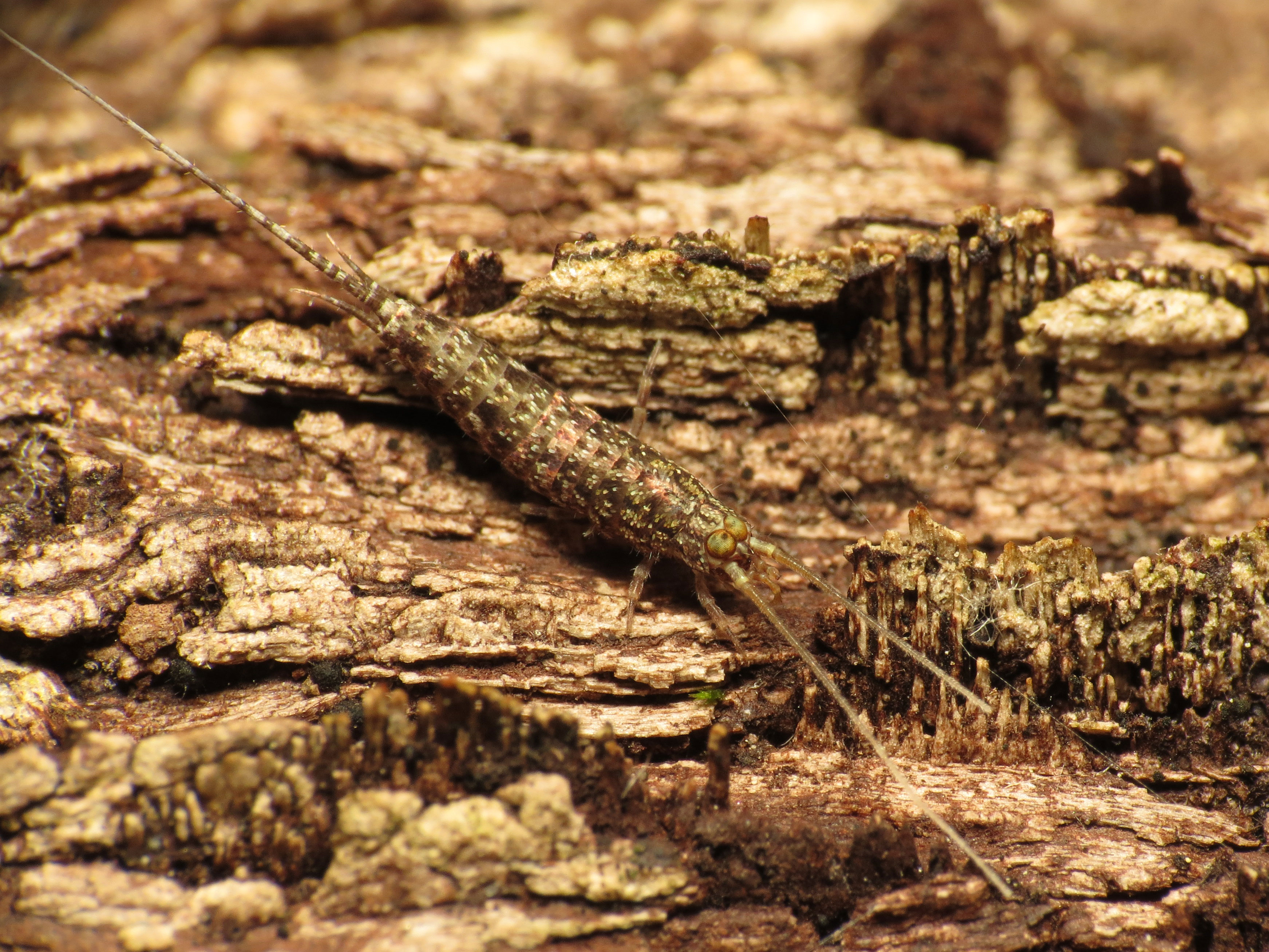 Machiloides banksi. Rock Creek Park, Washington, DC.